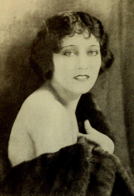 Actress Gloria Swanson, on page 20 of the February 1922 Photoplay.